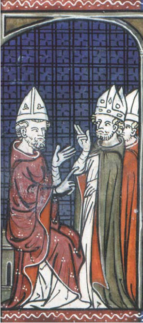 Innocentius III